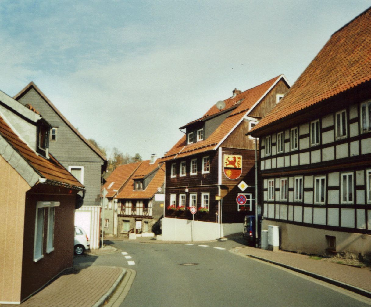 Hight Street (Hahnenkleer Straße), Lautenthal, Harz Mountains, Germany